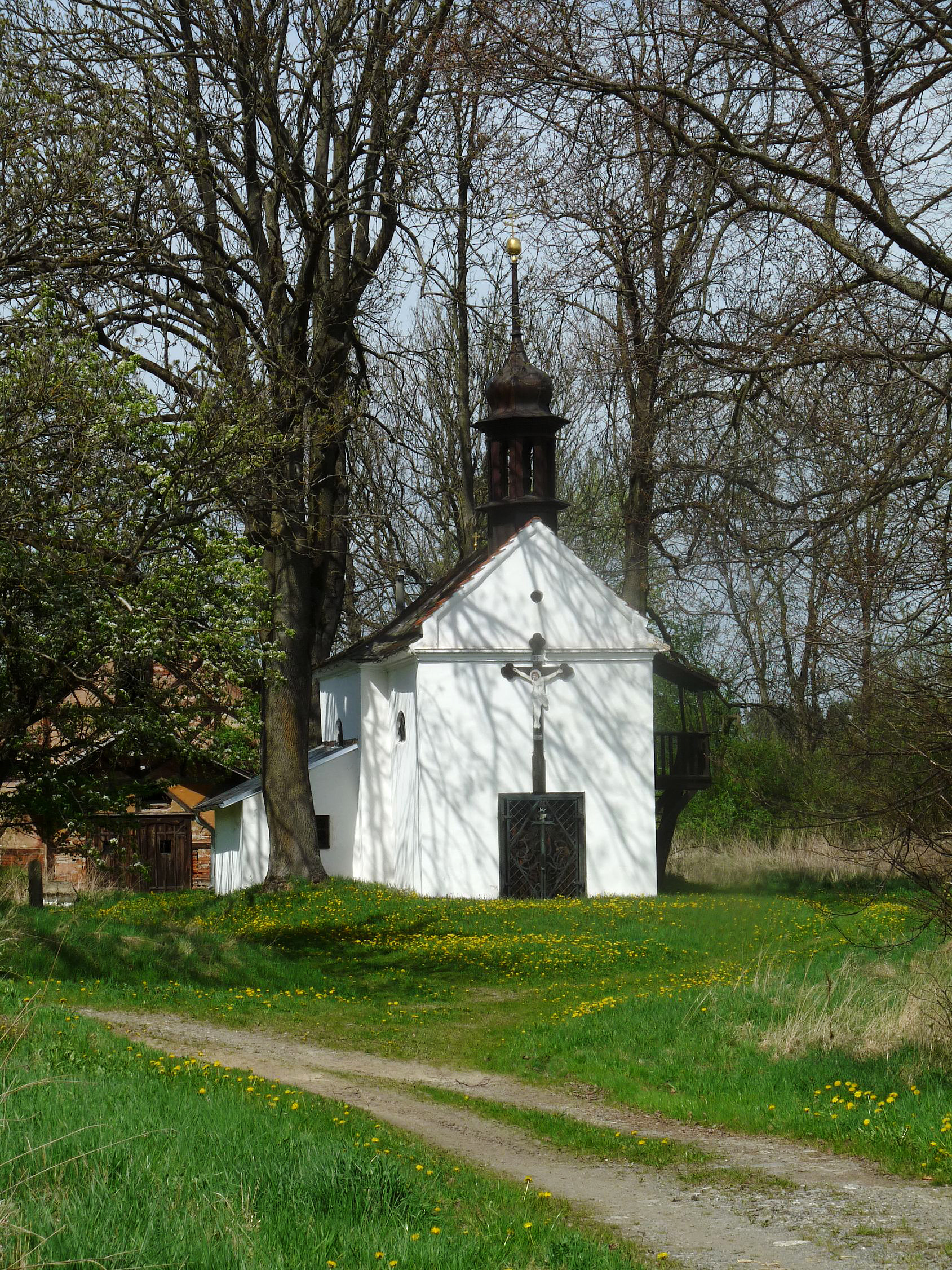 Chapel at the Opálka Fortin the village of Opálka, part of the town of Strážov, Klatovy District, Czech Republic